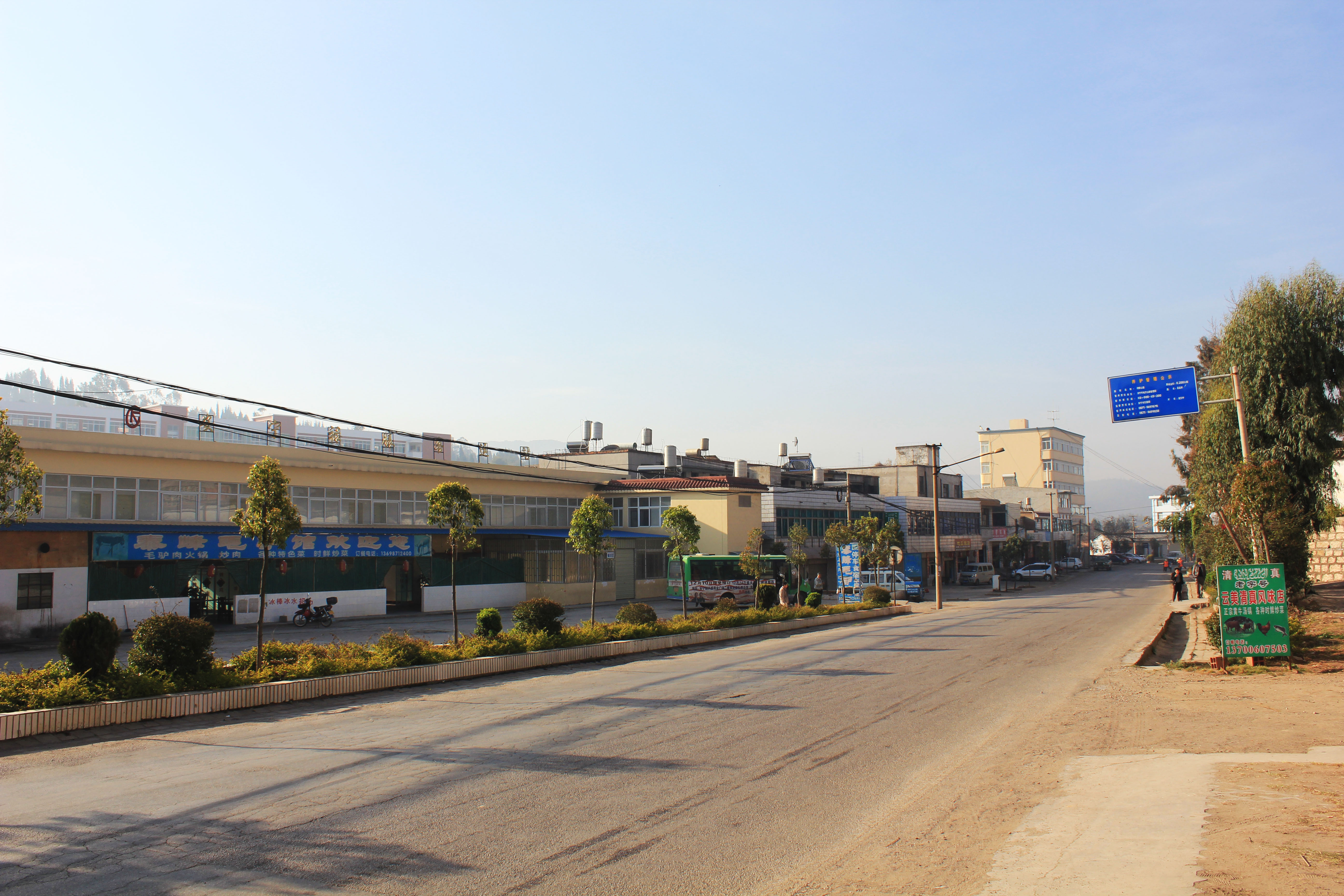 Lubiao Subdistrict（former Lubiao Town）in Anning City，Yunnan Province，China. Lubiao bus station is on the left.